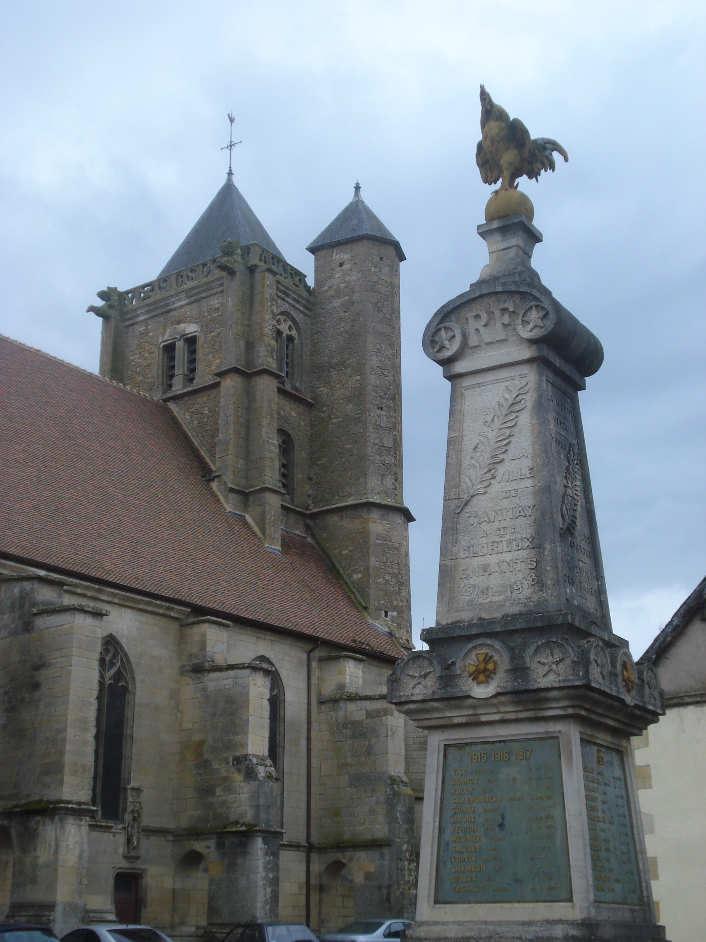 Tannay (Nièvre, Fr) church St.Léger (12th c. ) fortified (15th c.)